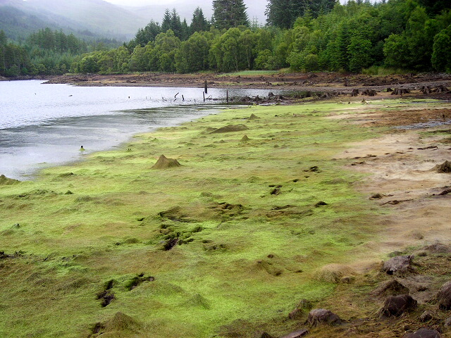 Slime Covered Shoreline of Glen Dubh Reservoir